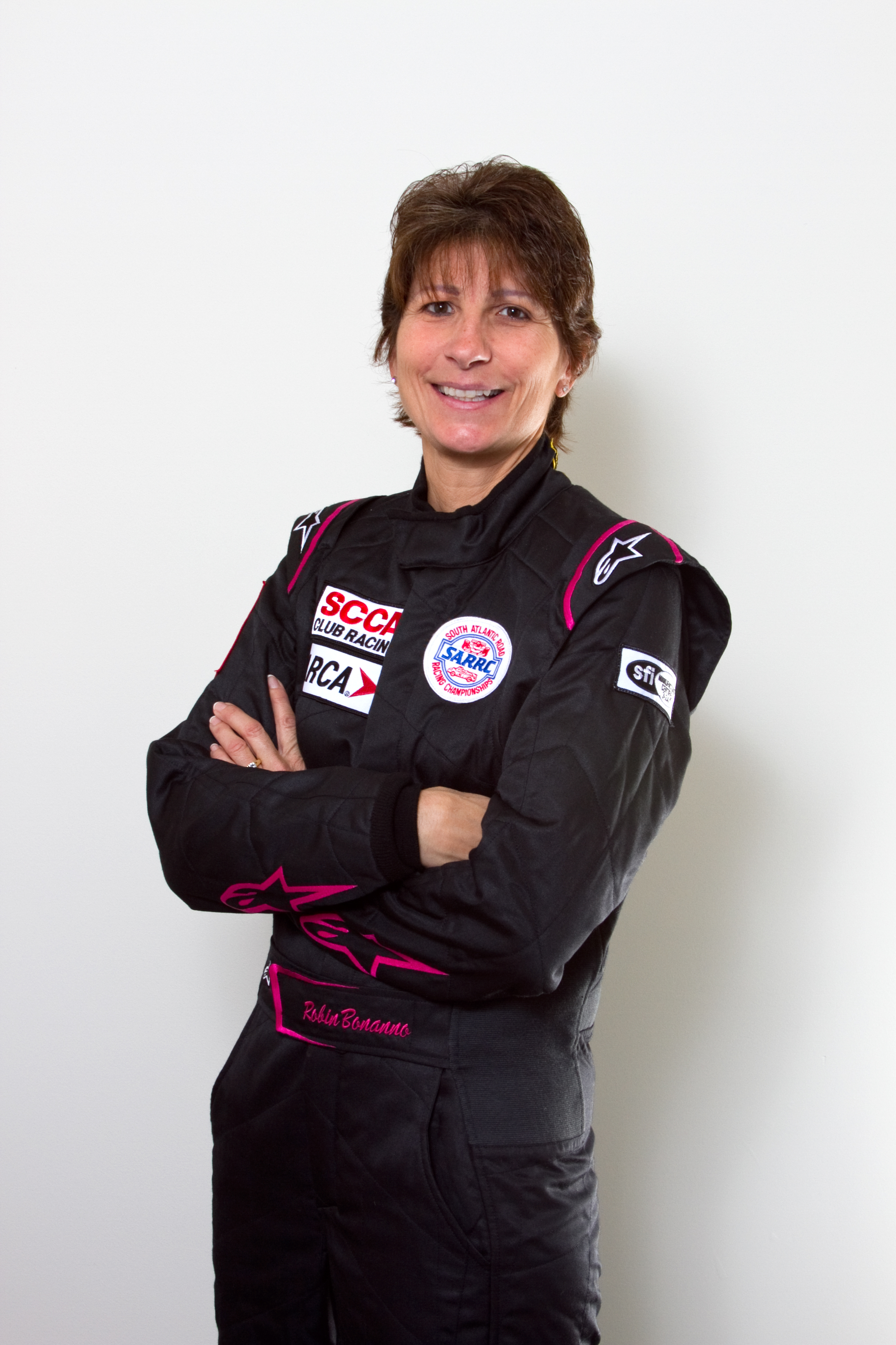 Robin Bonanno in her black race suit